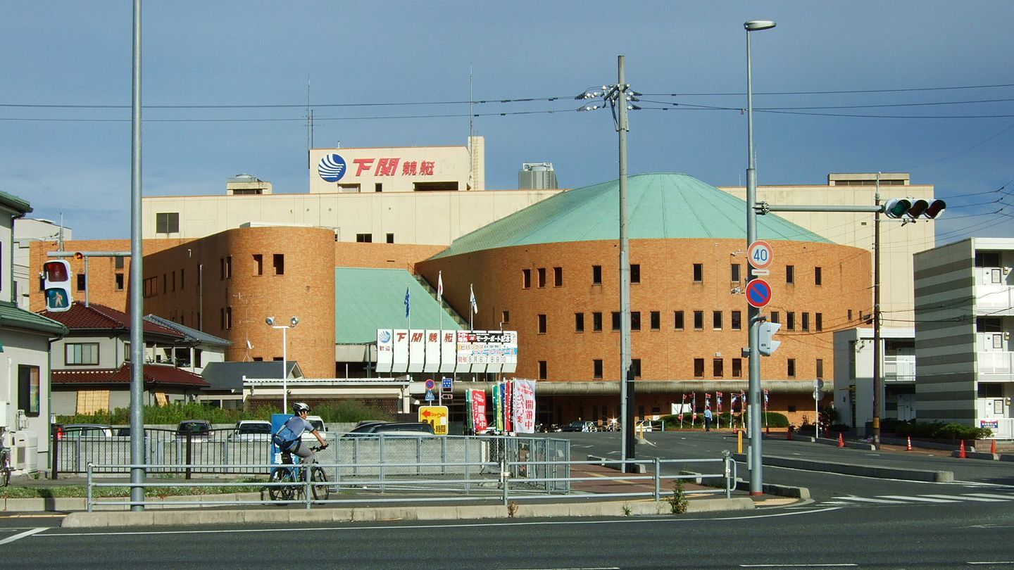 Shimonoseki Kyotei